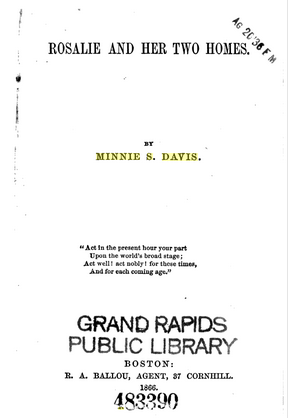 Rosalie and Her Two Homes, By Minnie S. Davis